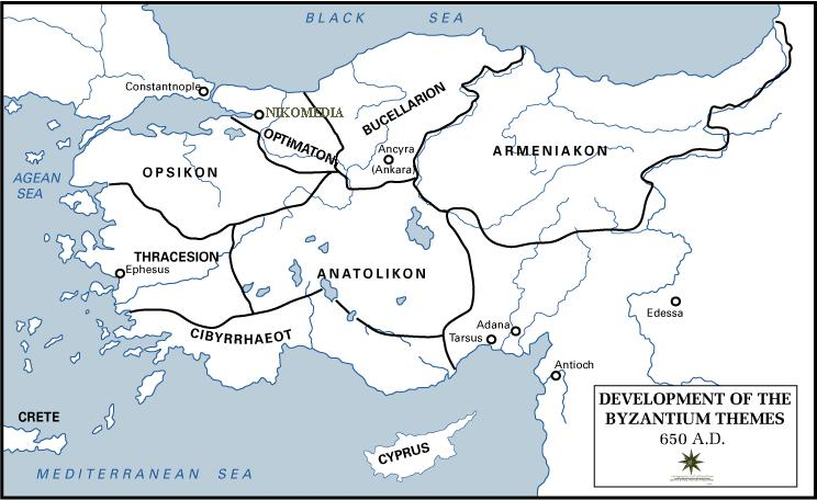 The Byzantine Empire Themata, 650, from the US Military Academy History archives (copyright US government?) *Source: Department of History, U.S. Military Academy *URL: [1] *Background information: In 1938 the predecessors of what is today The Department of History at the United States Military Academy began developing a series of campaign atlases to aid in teaching cadets a course entitled, "History of the Military Art." Since then, the Department has produced over six atlases and more than one thousand maps, encompassing not only America’s wars but global conflicts as well. In keeping abreast with today's technology, the Department of History is providing these maps on the internet as part of the department's outreach program. The maps were created by the United States Military Academy’s Department of History and are the digital versions from the atlases printed by the United States Defense Printing Agency. We gratefully acknowledge the accomplishments of the department's former cartographer, Mr. Edward J. Krasnoborski, along with the works of our present cartographer, Mr. Frank Martini. Please be aware that these maps are large in file size and may require substantial download times.